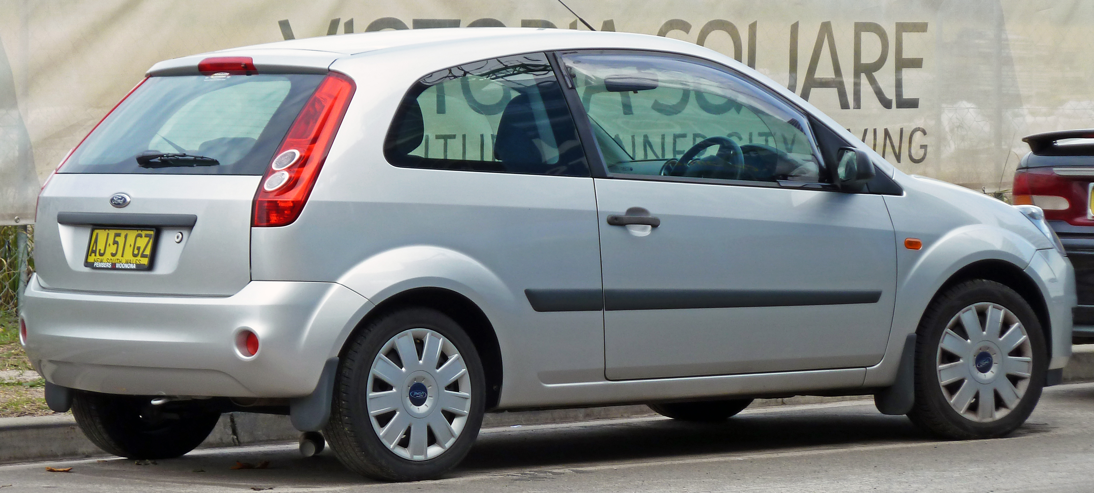 2006 Ford Fiesta (WQ) LX 3-door hatchback. Photographed in Zetland, New South Wales, Australia.